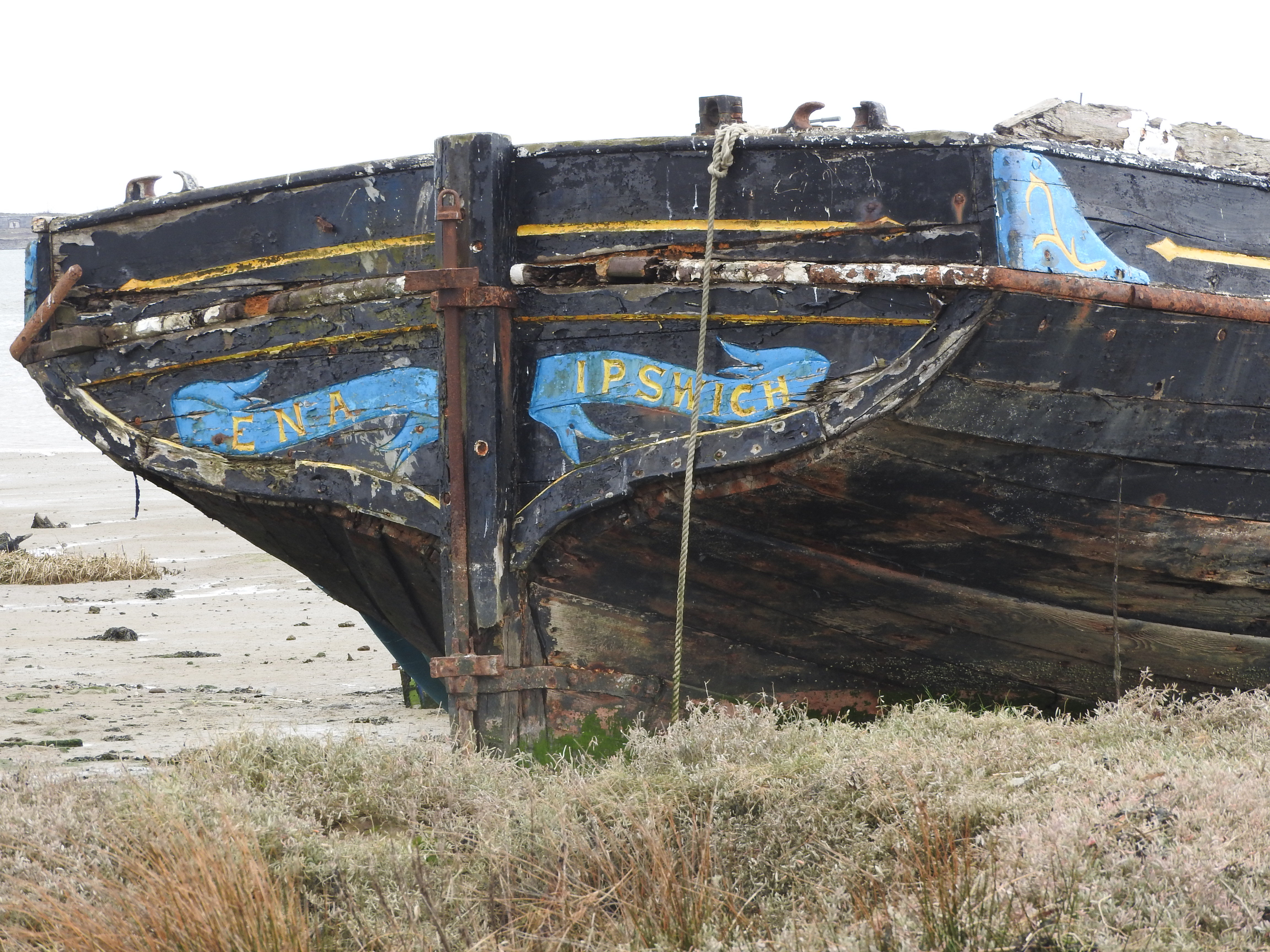 SB Ena in April 2018 on the mud in Hoo, Kent. Alongside Stargate Marine.